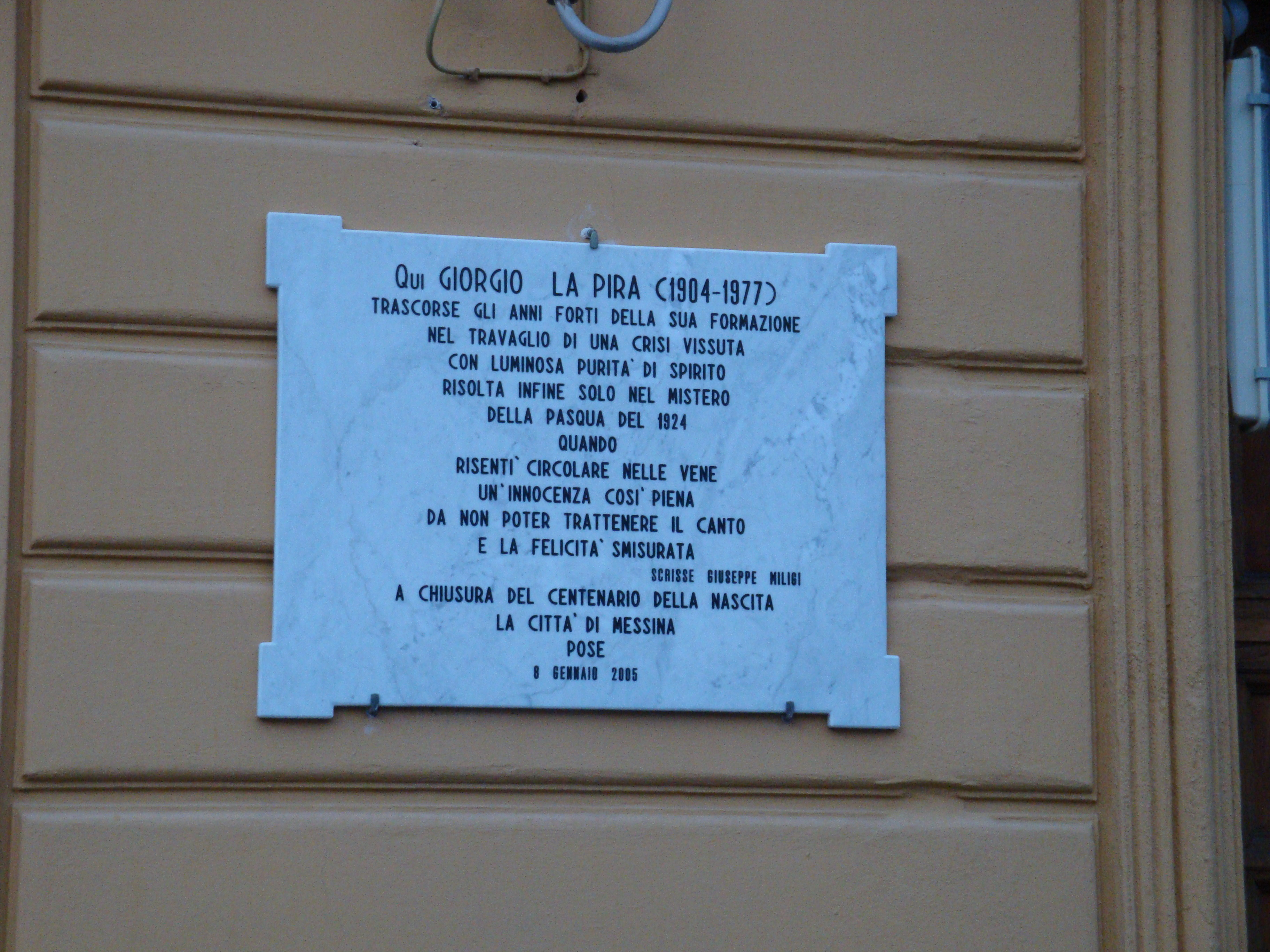 Here-lived plaque on a wall of Giorgio La Pira's house in Messina, Italy